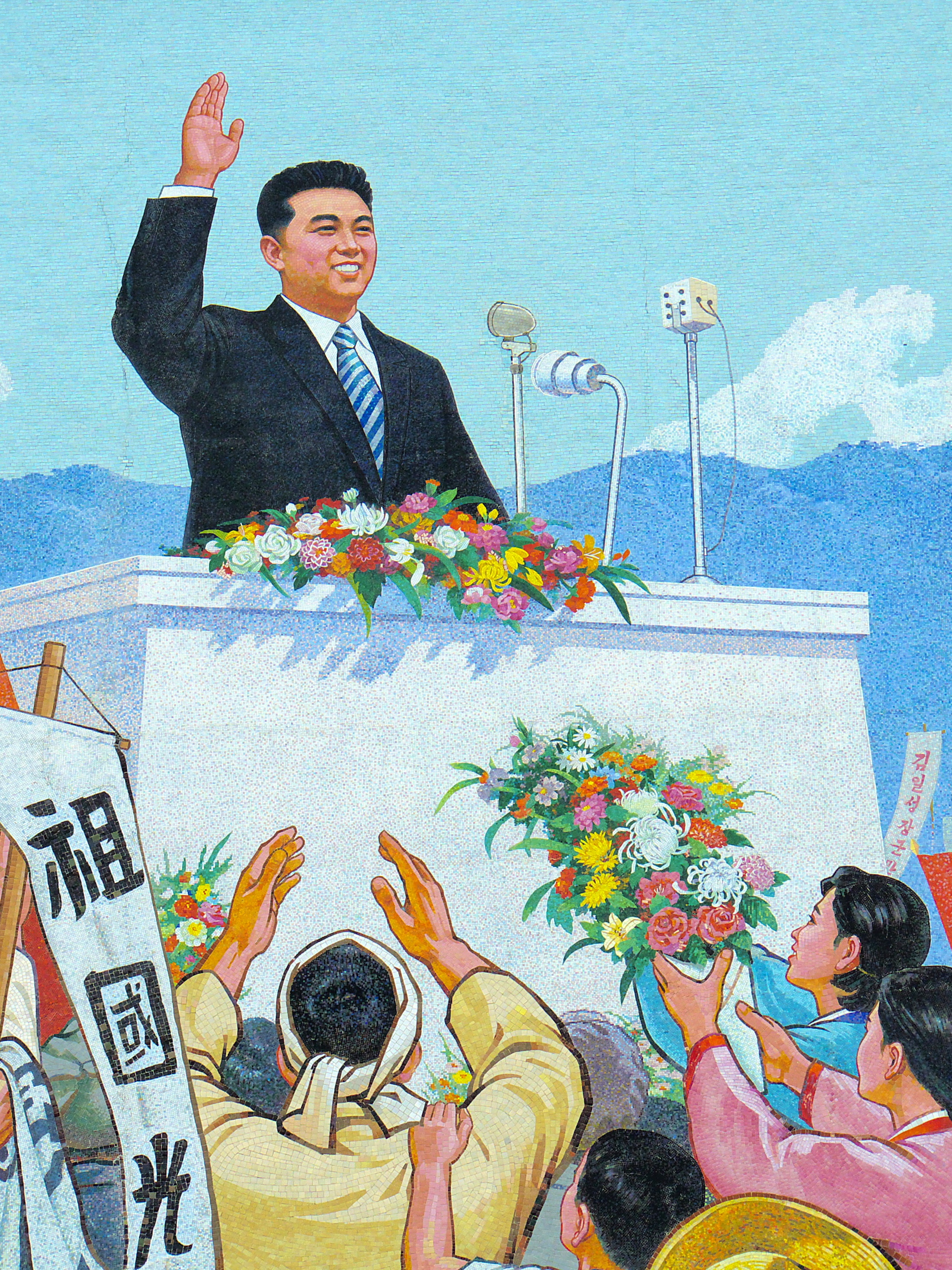 Pyongyang's Arch of Triumph commemorates the triumphant homecoming of Kim Il Sung after he "liberated Korea from Japan". This mosaic, not far from the arch, depicts the said event.